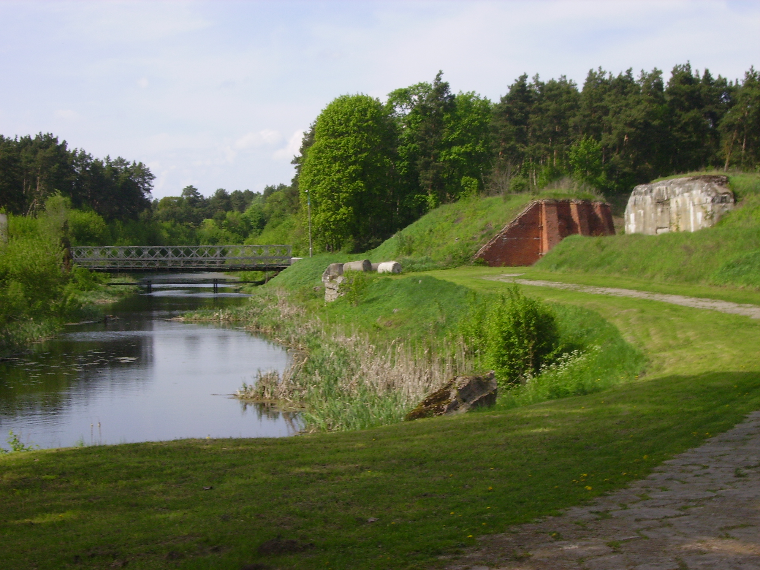 Osowiec Fortress. Moat